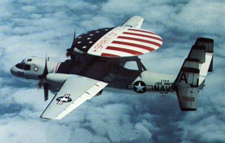 A U.S. Navy Grumman E-2B Hawkeye (BuNo 149819) from airborne early warning squadron VAW-116 Sun Kings in flight. VAW-116 was assigned to Carrier Air Wing 8 (CVW-8) aboard the aircraft carrier USS Nimitz (CVN-68) for a deployement to the Mediterranean Sea from 7 July 1976 to 7 February 1977. Note the bicentennial markings on top of the radome.